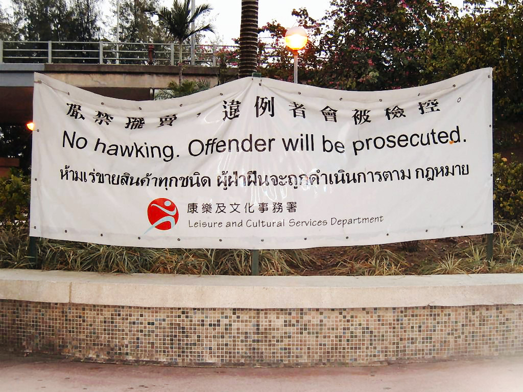 This is a banner in Olympic Garden, Kowloon City, Hong Kong.